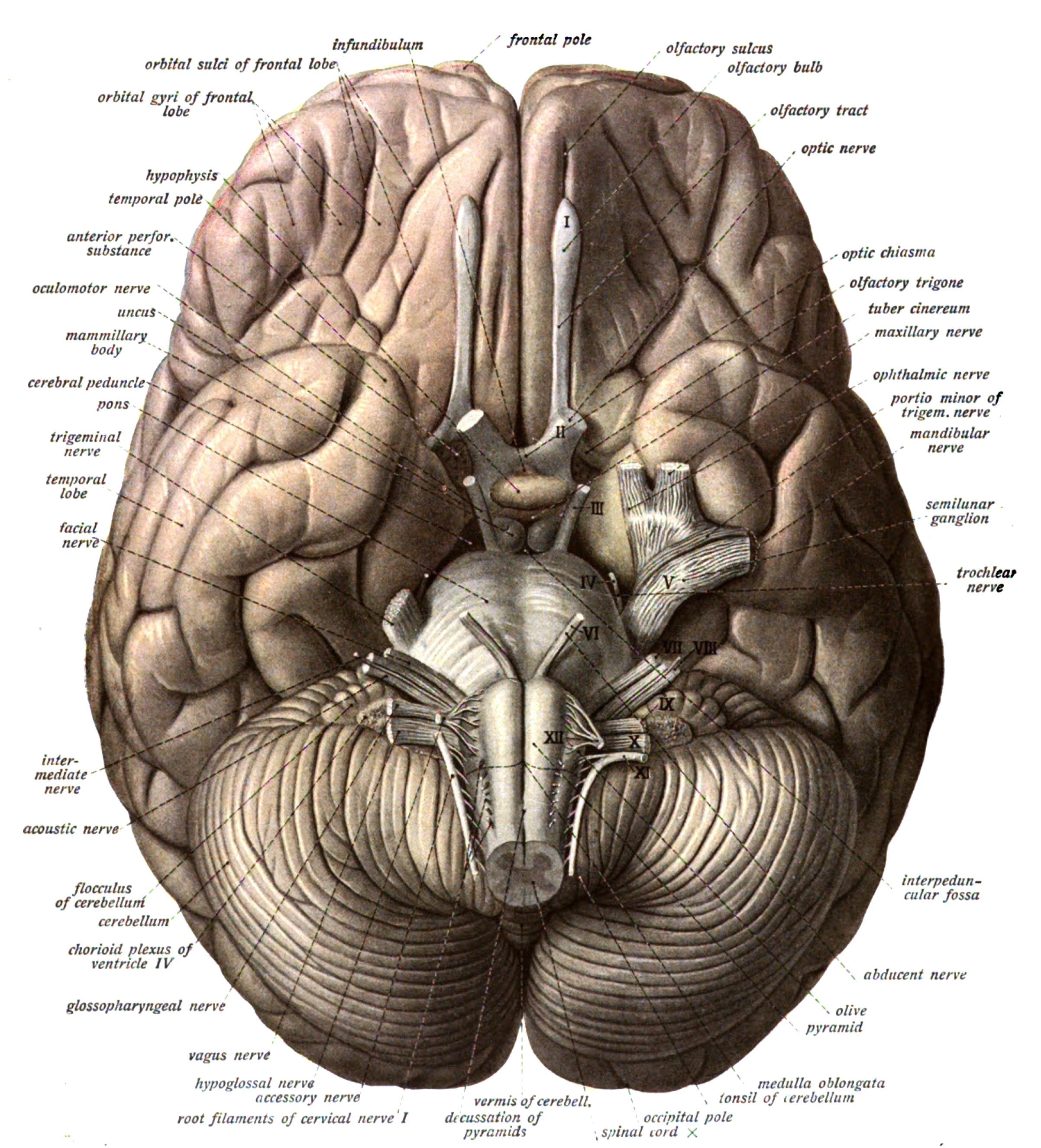 An anatomical illustration from Sobotta's Human Anatomy 1908